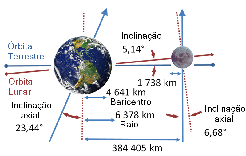 NASA photos of Earth and Moon labeled with some data on orbits and tilts